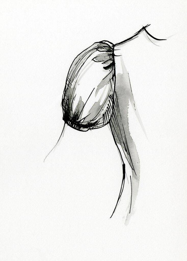 Drawing of the Thesaurus concept : 'short puffed sleeve'